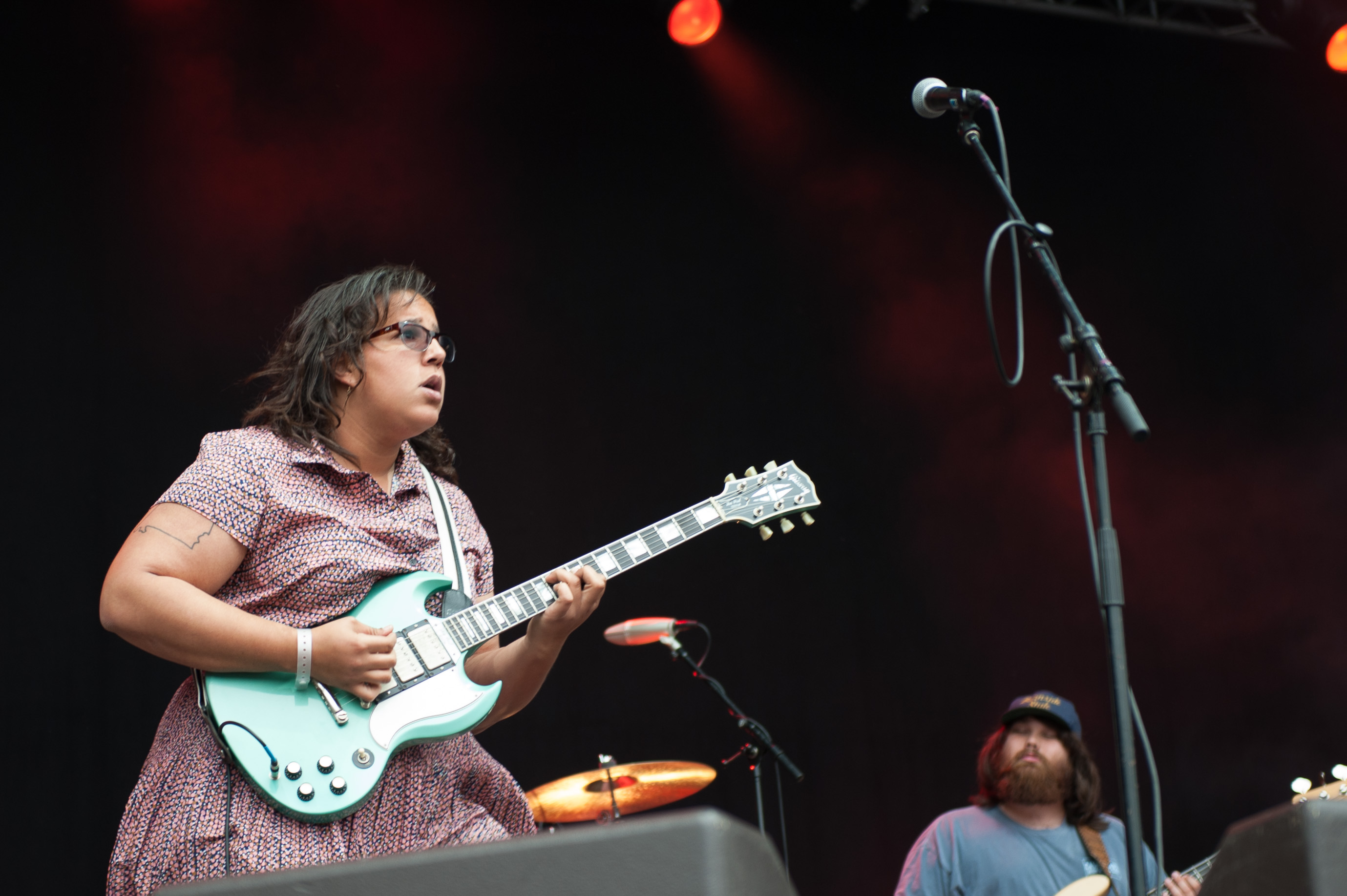 Brittany Howard and Zac Cockrell of Alabama Shakes at Way out West 2013 in Gothenburg, Sweden